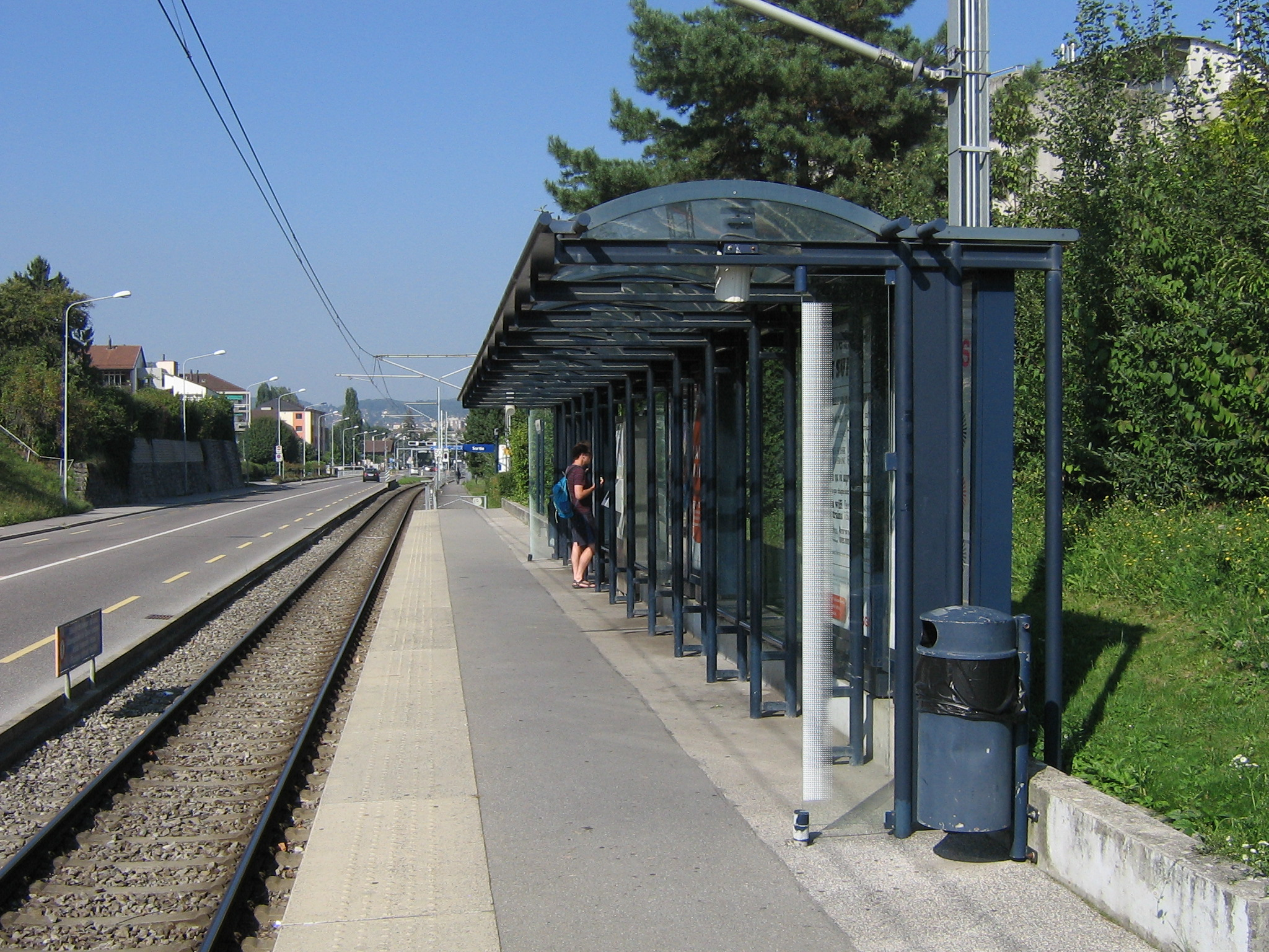 Metro station Bassenges on the Lausanne metro M1 line